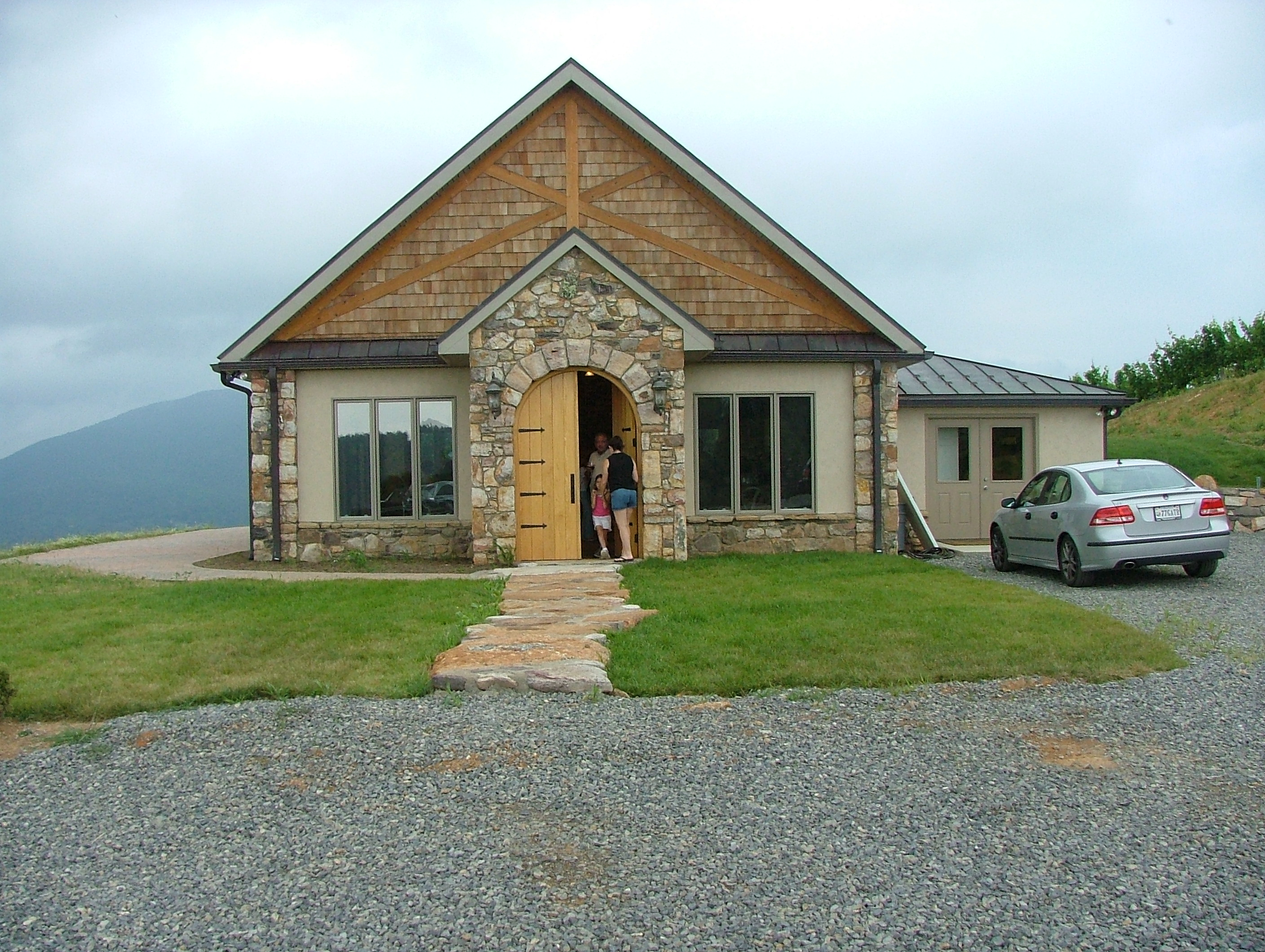 Valhalla Winey, near Roanoke Virginia